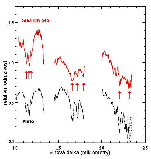 Near infrared spectrum of minor planet w:2003 UB313, taken with the Gemini 8m telescope. Credit: Michael Brown, Chad Trujillo, David Rabinowitz. Released under GFDL with permission from Michael Brown.